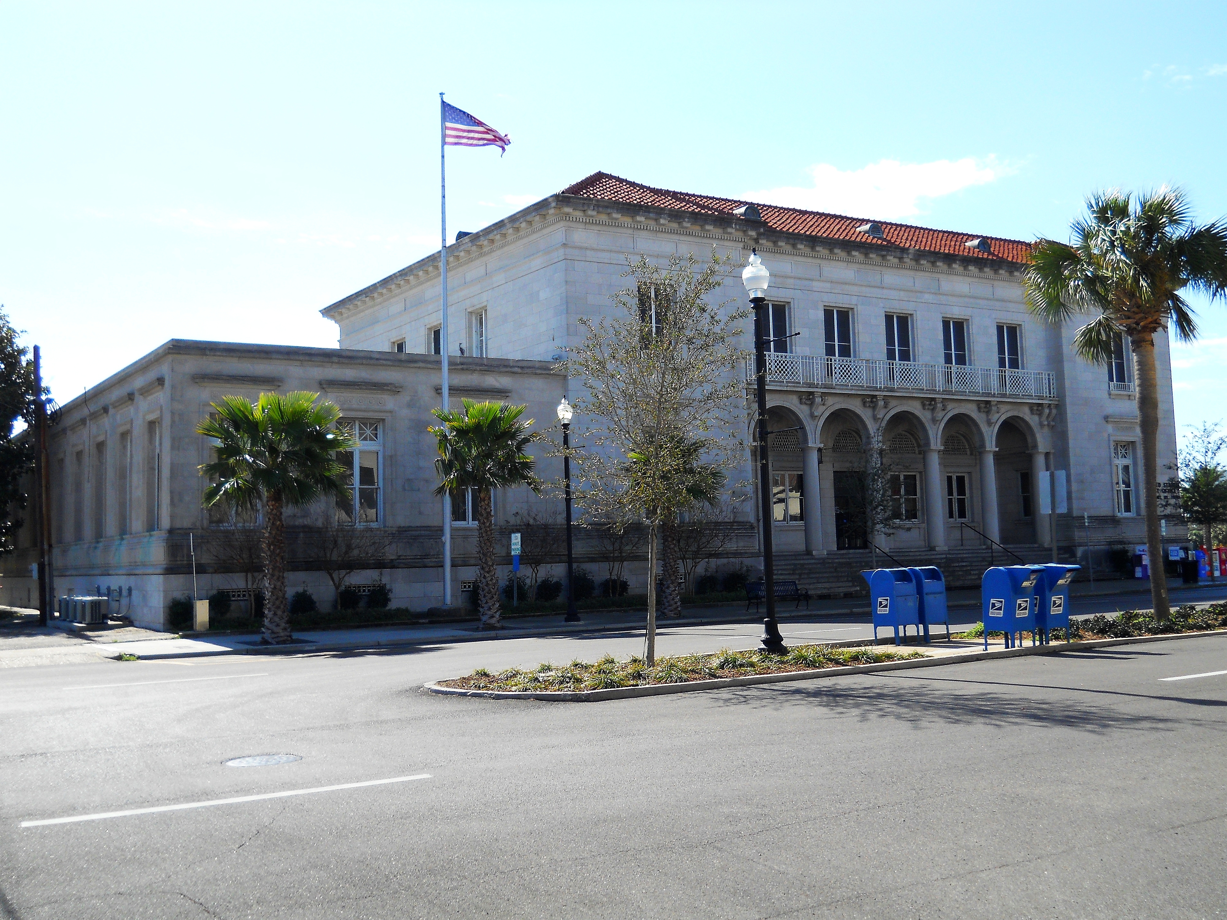 U.S. Post Office and Customhouse located at 2421 13th Street, Gulfport, Harrison County, Mississippi, USA. Constructed 1907-1910 in Italian Renaissance architectural style. Added to National Register of Historic Places March 19, 1984.